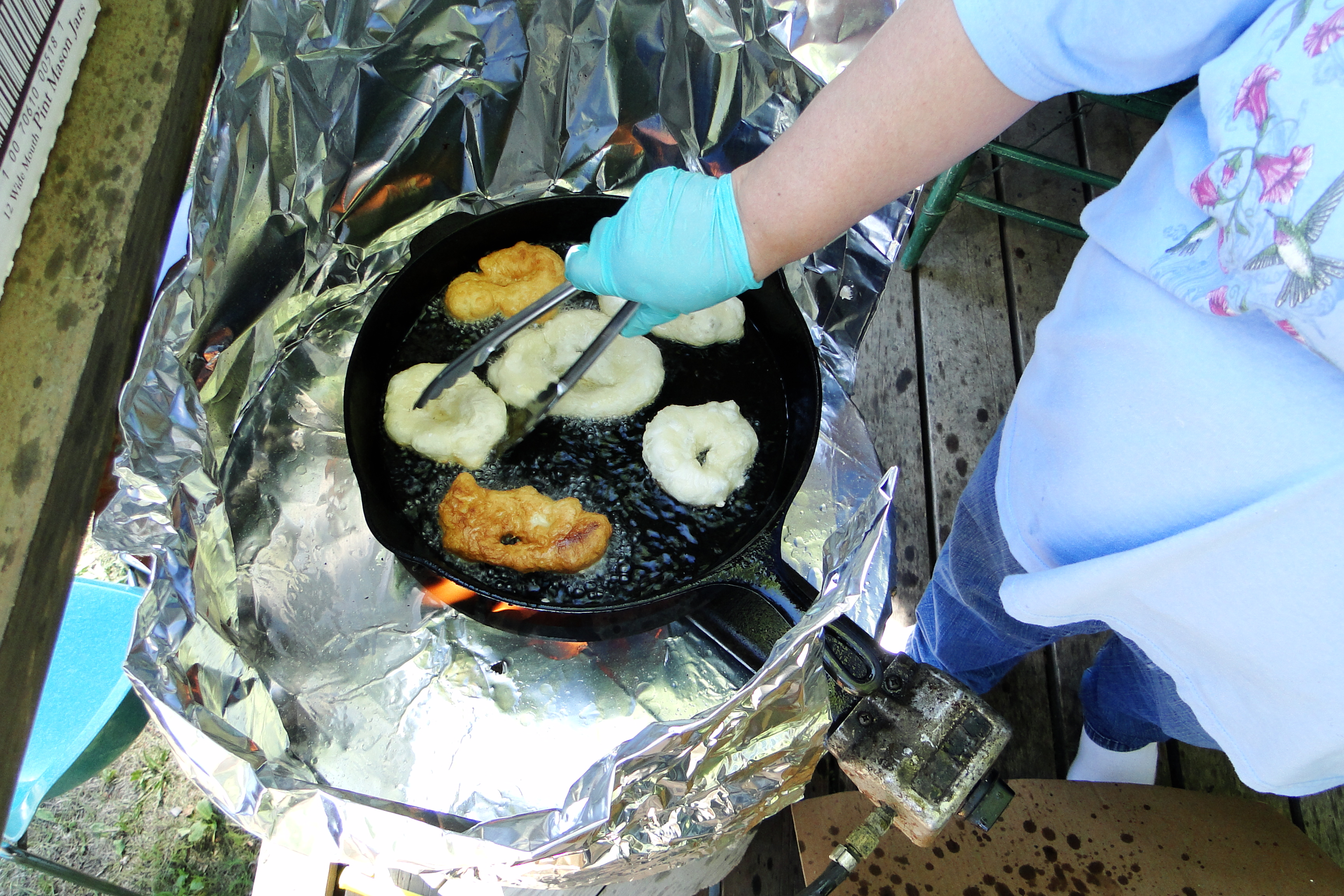 Authentic Frybread in the making.